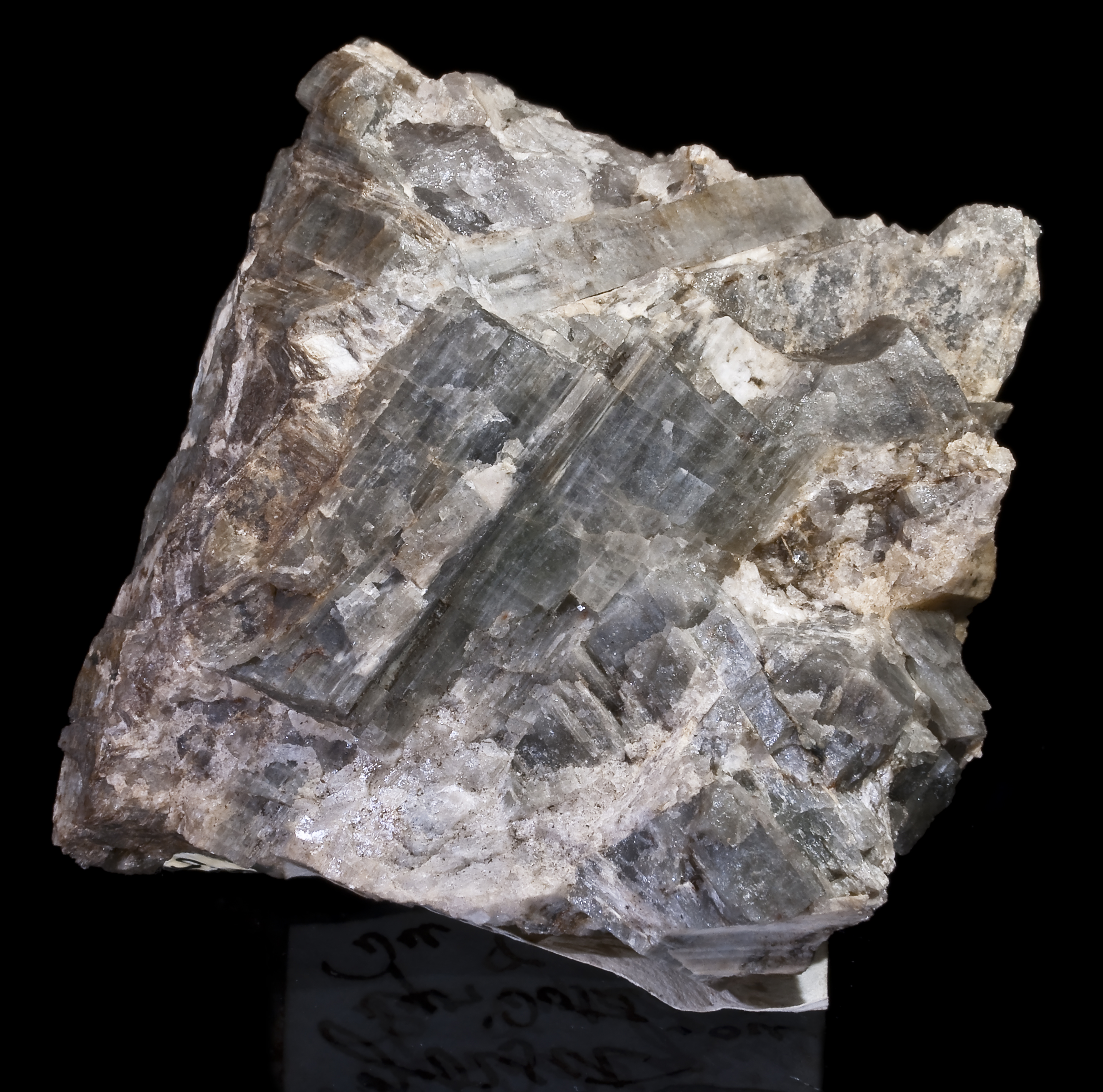 Clinozoisite Locality :Deposite topotype - Gösleswand (Goslerwand), Ströden, Prägraten, Virgen valley, East Tyrol, Tyrol, Austria Size : 4.6x4.1 cm